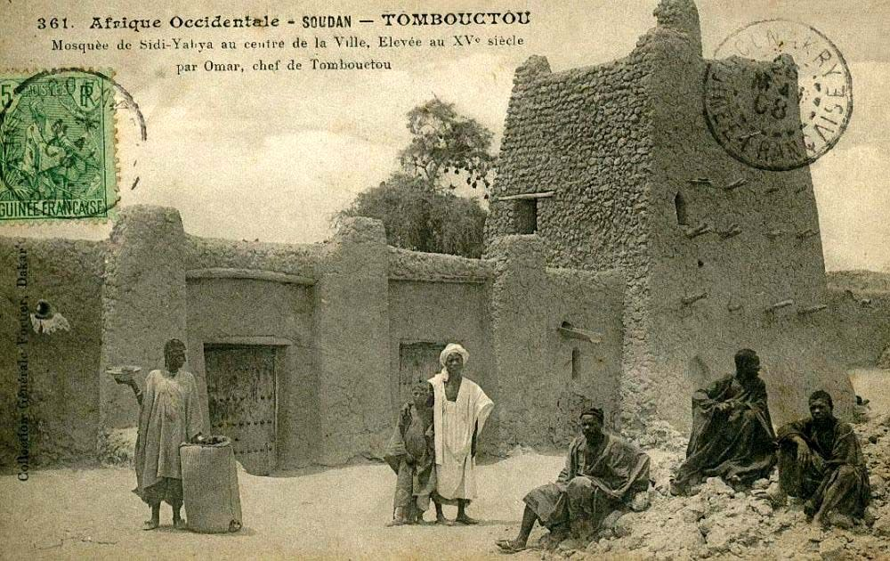 Postcard 361 by Edmond Fortier. View of the Sidi Yahya Mosque in Timbuktu, Mali.